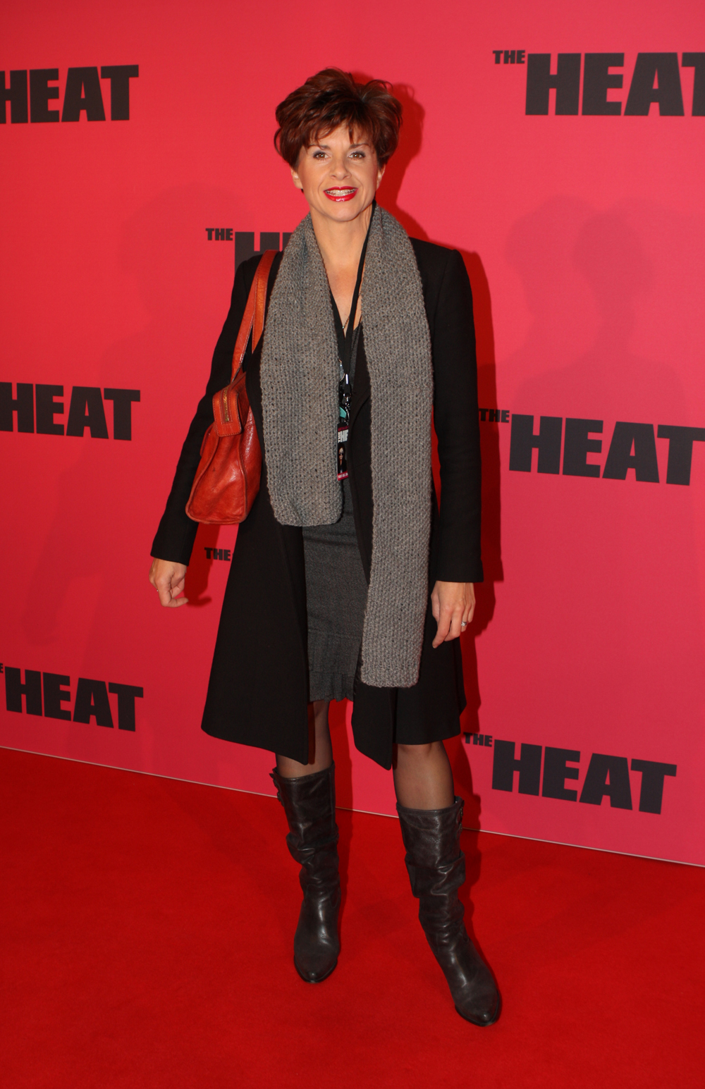 The Heat red carpet movie premiere in Sydney, Australia with Sandra Bullock - 2nd July 2013... Sandra Bullock, a good looking 48-year is in town to promote her new movie, The Heat. Early in the day she hopped a luxury boat on Sydney Harbour to enjoy our city. Event Cinemas in George Street says Bullock and Melissa McCarthy playing detectives in a cop comedy. Bullock plays successful, but highly highly strung FBI special agent Sarah Ashburn and is partnered with tough Boston cop Shannon Mullins (McCarthy). The girls are after a drug boss... of course. Early reviews and box office numbers demonstrate that Bullock's latest movie will be a thumbs up with fans and movie execs. The action-comedy grossed $US40 million ($43.7 million) - in second earnings place - in its opening weekend. Plot Outline: Uptight FBI Special Agent Sarah Ashburn (Sandra Bullock) and foul-mouthed Boston cop Shannon Mullins (Melissa McCarthy) couldn’t be more incompatible. But when they join forces to bring down a ruthless drug lord, they become the last thing anyone expected: buddies. From Paul Feig, director of “Bridesmaids.” Cast... Sandra Bullock as FBI Special Agent Sarah Ashburn Melissa McCarthy as Detective Shannon Mullins Dan Bakkedahl as DEA Agent Craig Demián Bichir as Hale Tom Wilson as Captain Woods Michael Rapaport as Jason Mullins Marlon Wayans as Levy Tony Hale as The John Taran Killam as Adam Nathan Corddry as Michael Mullins Kaitlin Olson as Tatiana Bill Burr as Mark Mullins Michael McDonald as Julian Lance Norris as Scruffy Bar Patron Jamie Denbo as Beth Jessica Chaffin as Gina Steve Bannos as Wayne Raw Leiba as Paint Factory Henchman Joey McIntyre as Peter Mullins Paul Feig as Doctor Websites The Heat 20th Century Fox Eva Rinaldi Photography